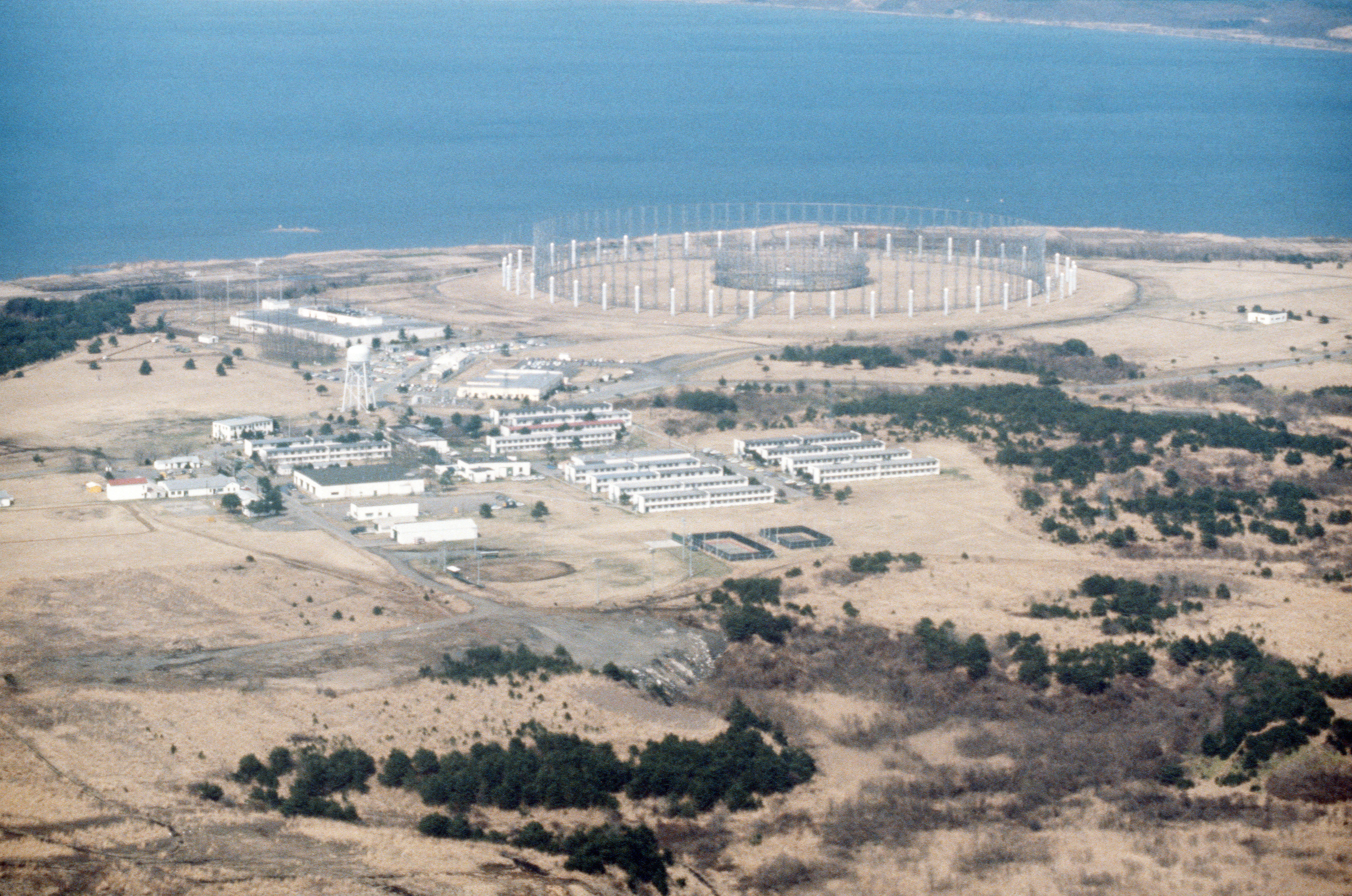 An aerial view of Security Hill with the "Elephant Cage" AN/FLR-9 circular disposed antenna array in the background. (Misawa AFB)